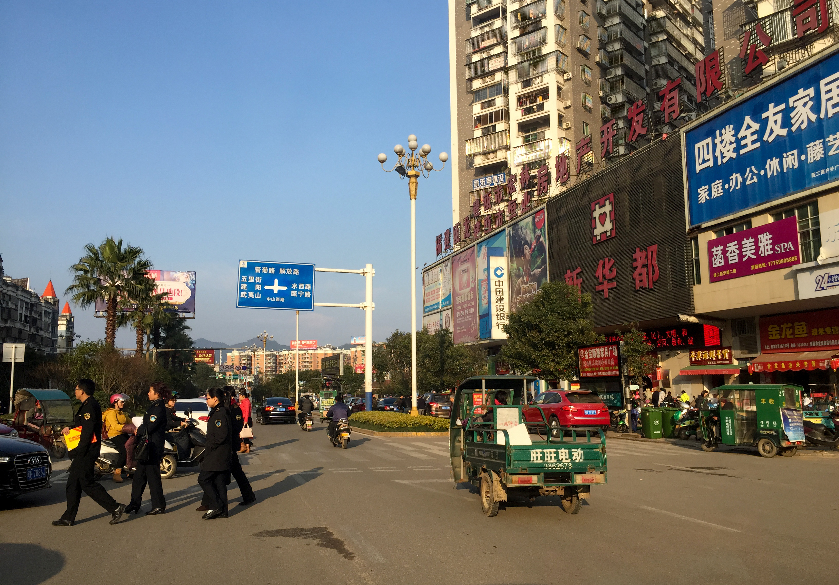 Taken en route from Jian'ouxi Station to downtown. This spot is right on the western bank of the river.